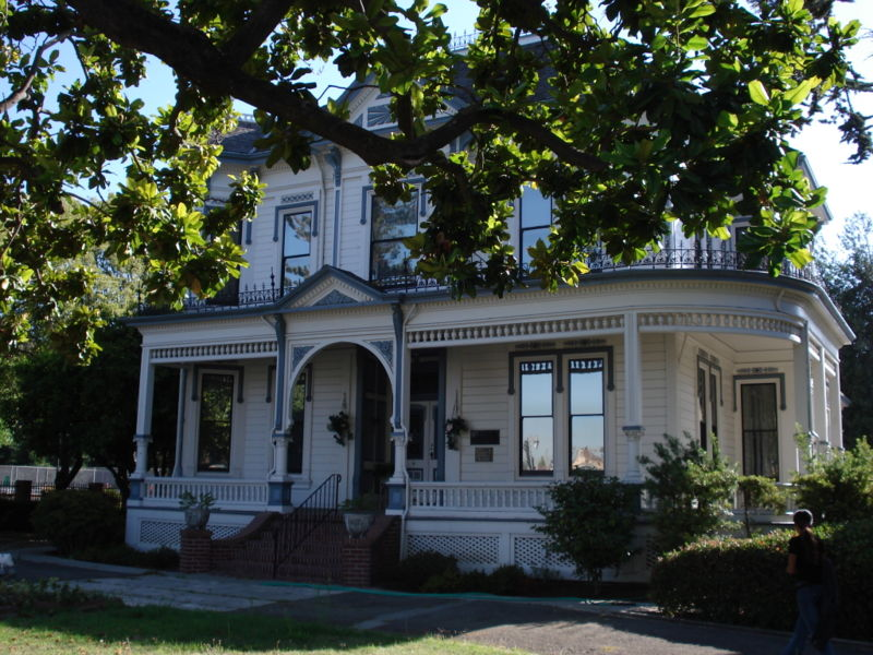 McConaghy Home, front, at McConaghy Park, Hayward, California